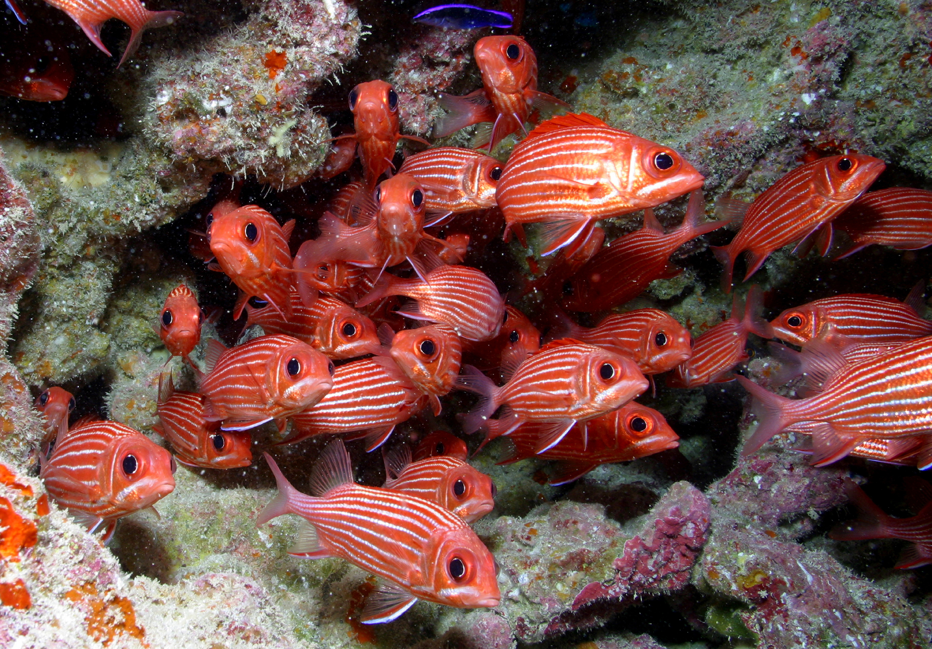 Red Fish The abundance of marine life in the NWHI can be seen in this school of Hawaiian squirrelfish at French Frigate Shoals, Papahānaumokuākea Marine National Monument Credit: James Watt. Please contact for image usage.